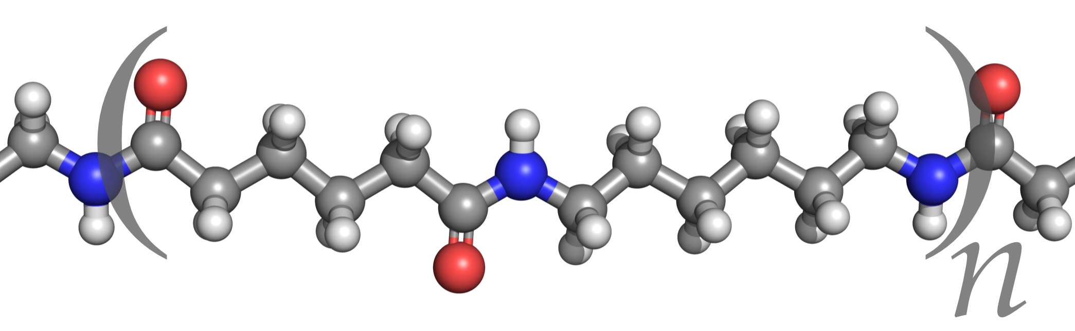 Nylon 6,6 3D structure.